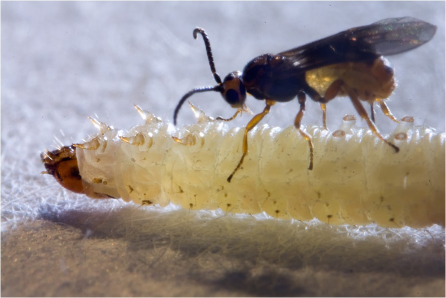 Bracon brevicornis female inserting ovipositor into paralyzed host "This is an Open Access article distributed under the terms of the Creative Commons Attribution License ( which permits unrestricted use, distribution, and reproduction in any medium, provided the original work is properly cited"